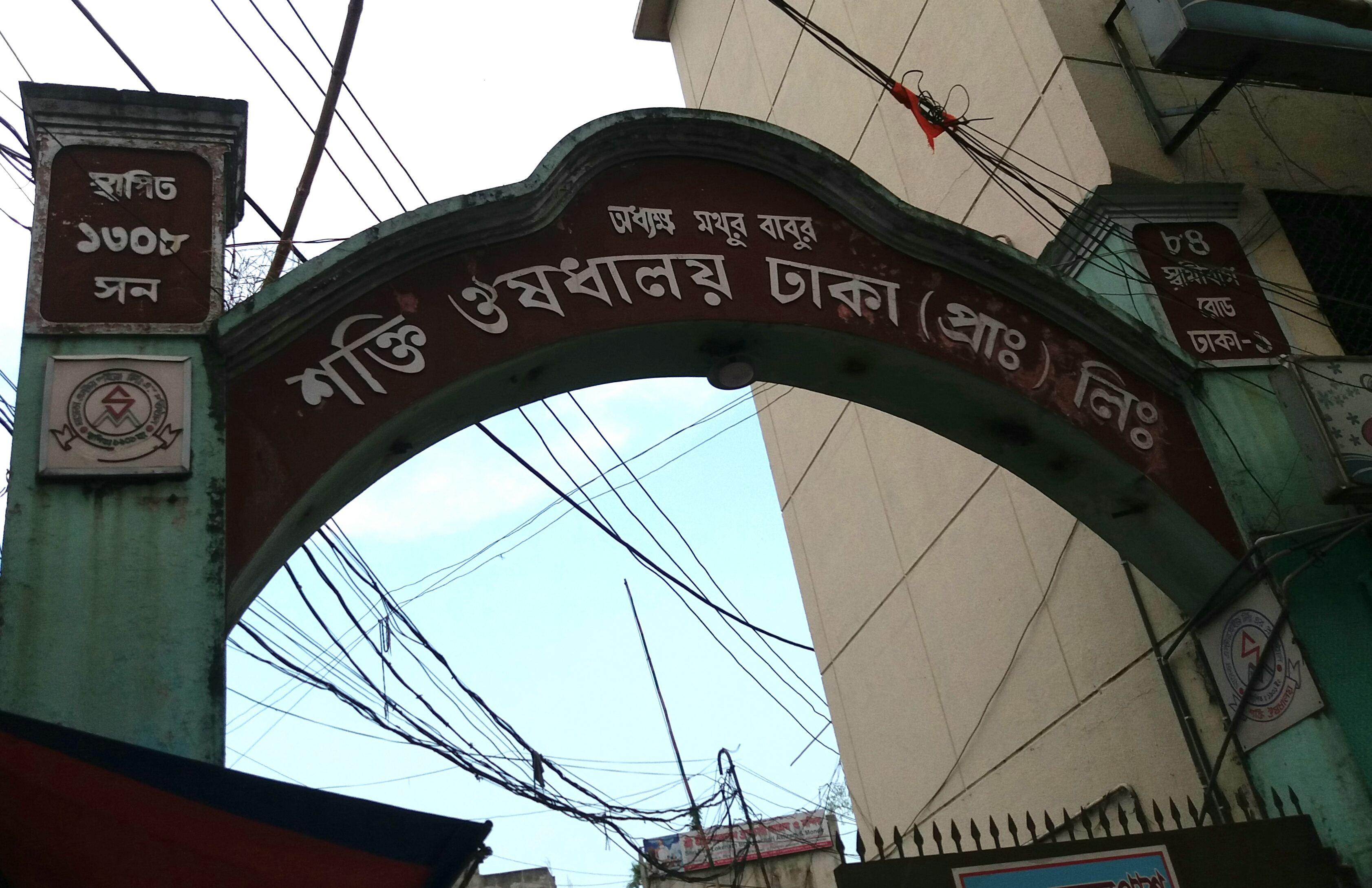 It is a medicine company established by Mathuramohon Chakrabarti in Swamibag, Dhaka